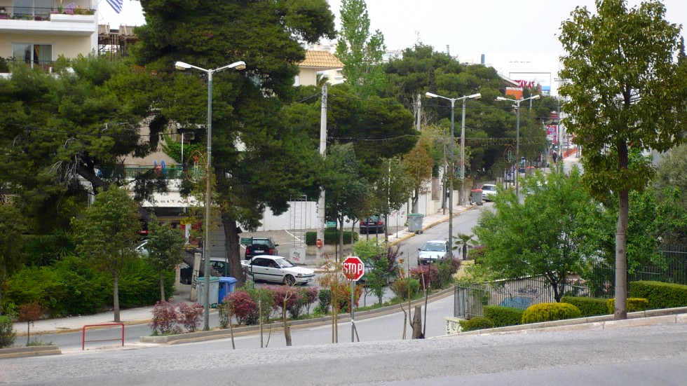 Melissia